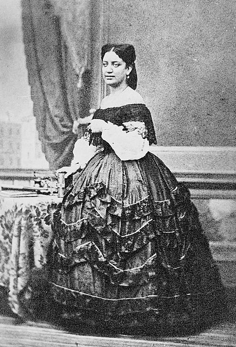 Portrait of Ángela Peralta (1845-1883).